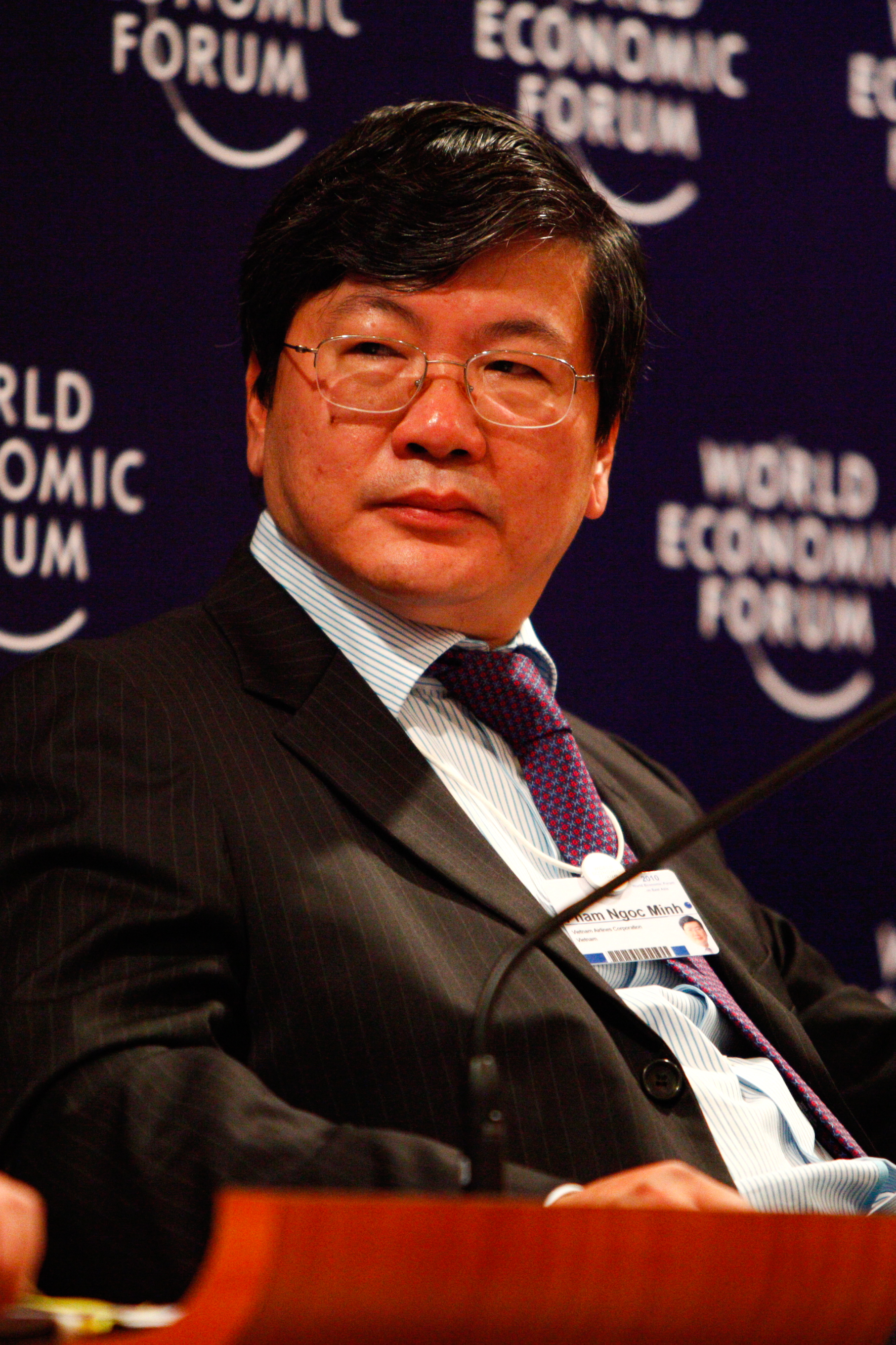 HO CHI MINH CITY/VIETNAM, 7JUN10 - Pham Ngoc Minh, President and Chief Executive Officer, Vietnam Airlines Corporation, Vietnam captured during the World Economic Forum on East Asia in Ho Chi Minch City, Vietnam, June 7, 2010. Copyright World Economic Forum ( Sikarin Thanachaiary